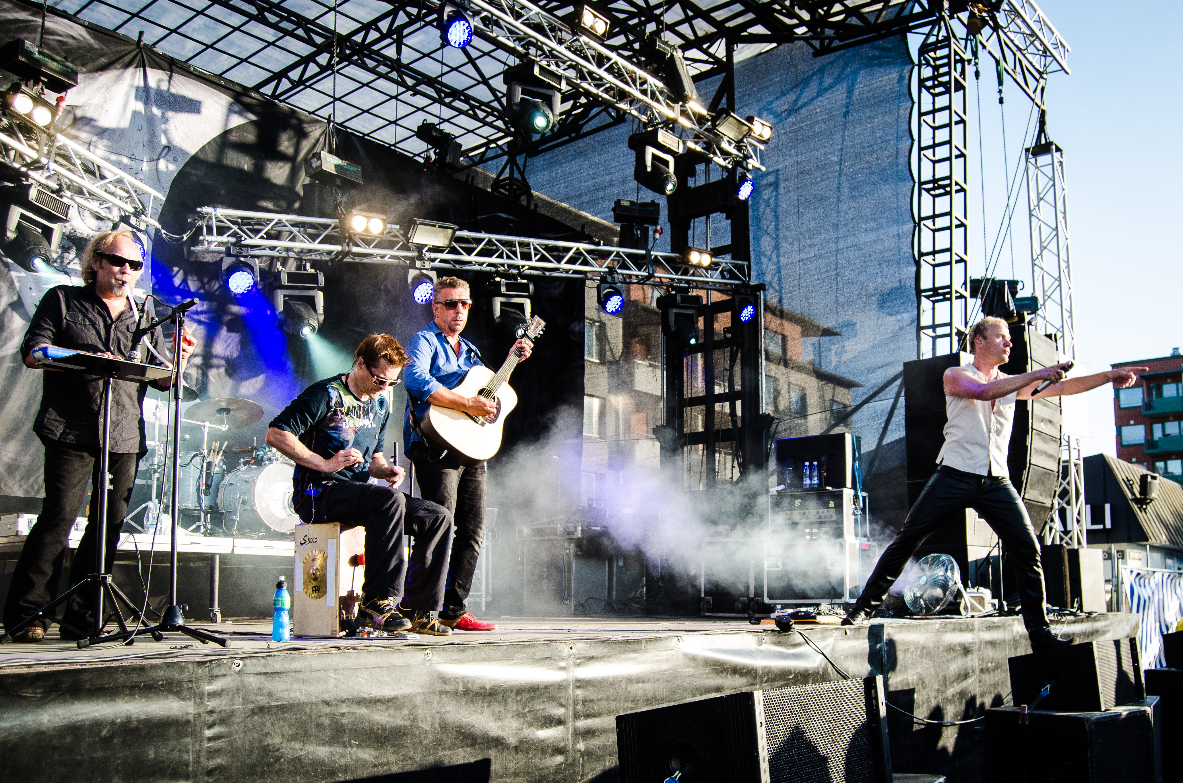 Neljä Ruusua performing at Lappeenrannan Yöt in July 2013